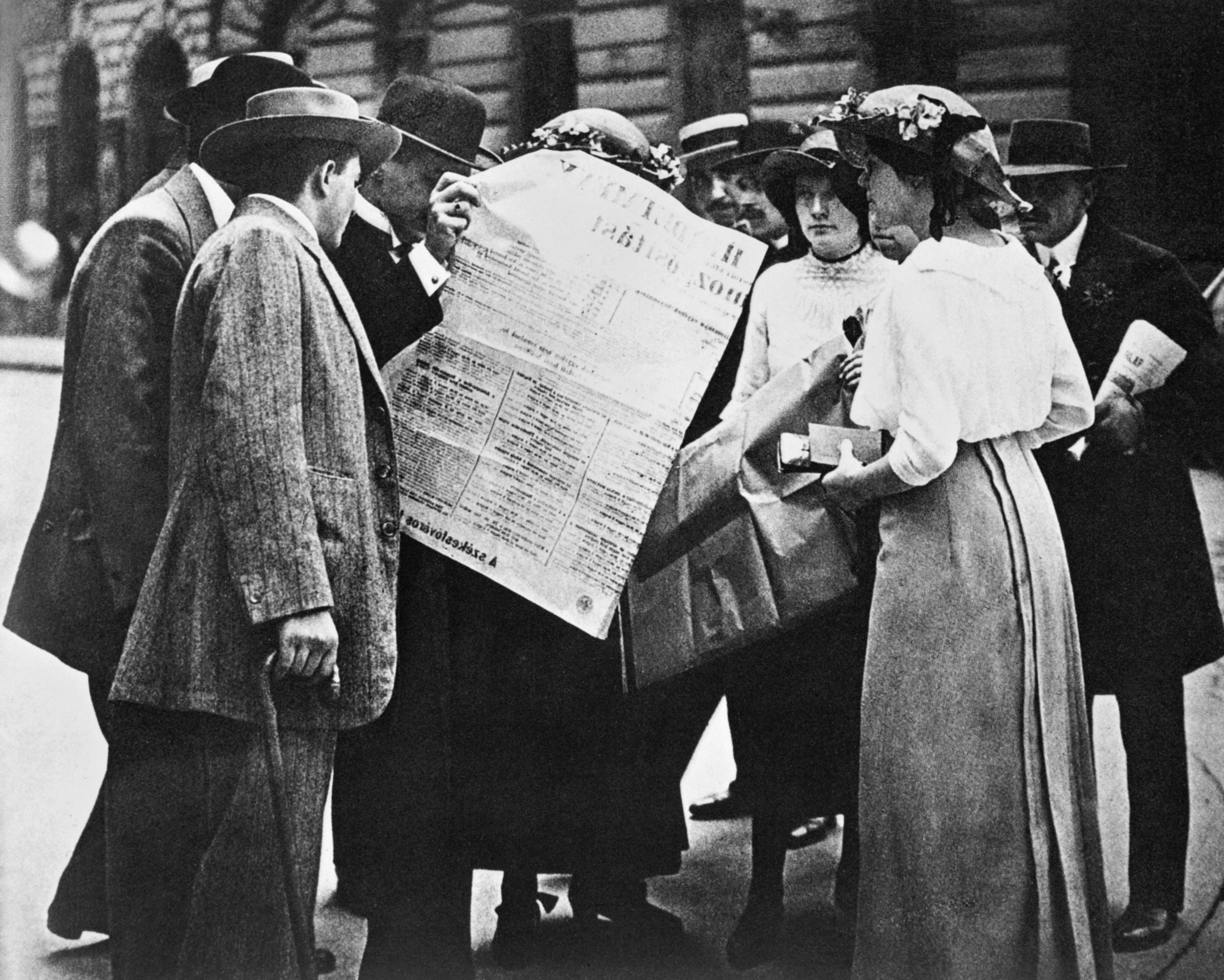 Austro-hungarian Army Mobilisation, July 1914 Citizens in Budapest read about the Austro-Hungarian Army's mobilisation in newspapers at the start of the First World War, 30 July 1914.